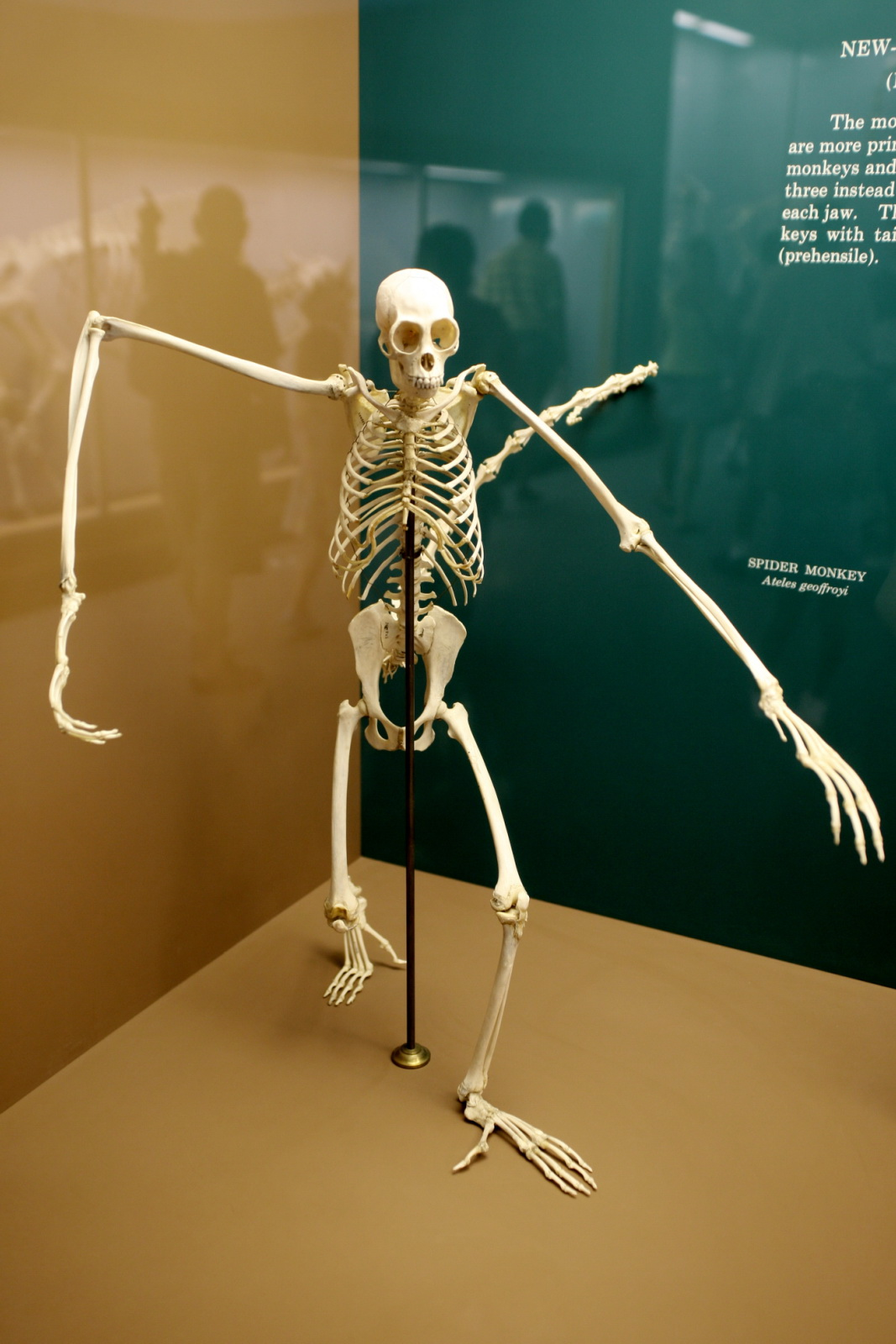 Skeleton of Ateles geoffroyi